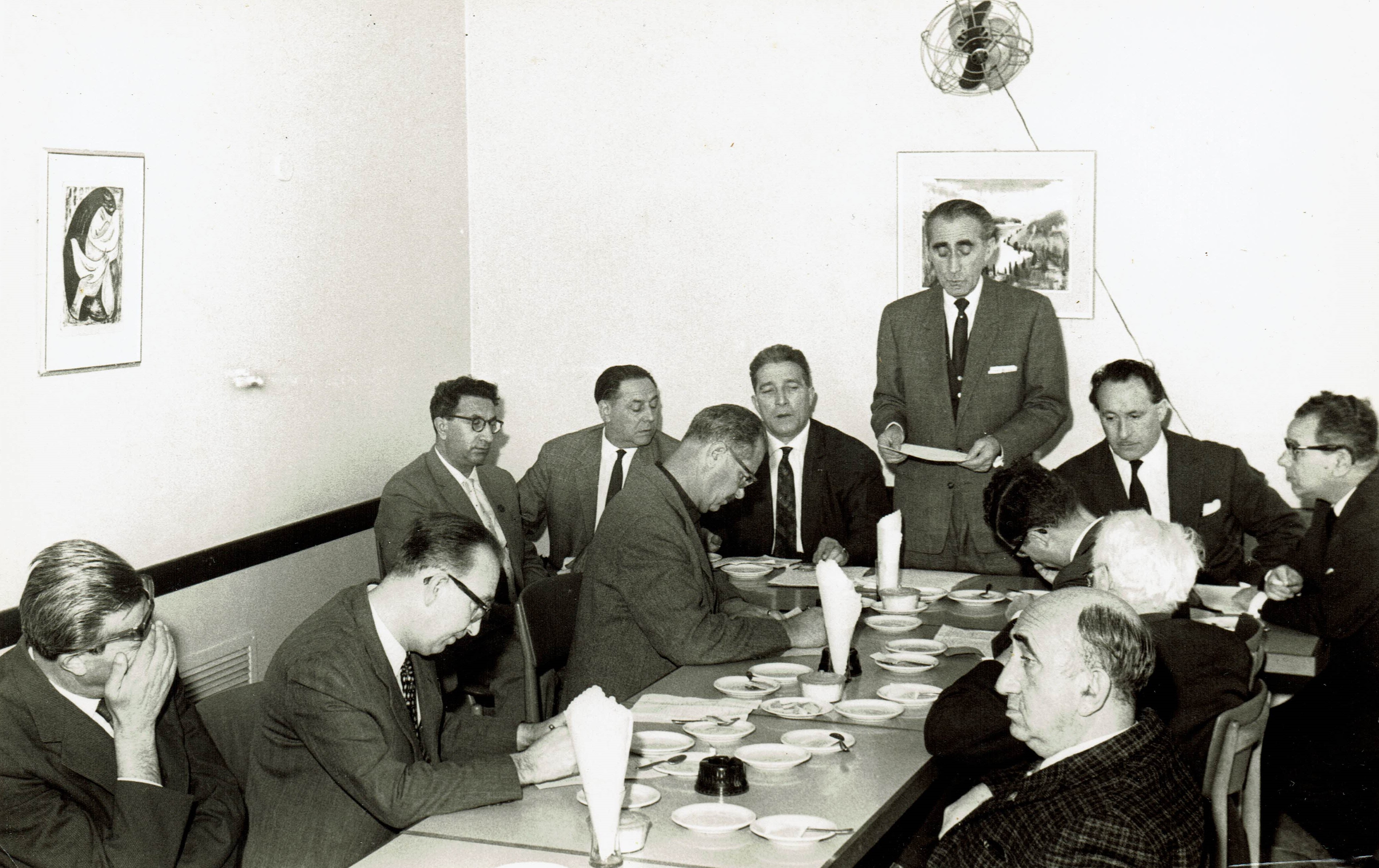 UIRD (International Union of the Resistance and the Deportation) delegation to Israel meeting with the press. Standing, Mr. Pejsach Bursztejn. Also in the photo, Hubert Halin, Roger Katz and Izchak Zandman.